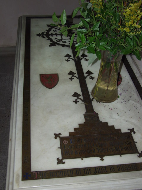 Tomb of the 2nd Earl Grey in the Church of St Michael and All Angels, Howick.